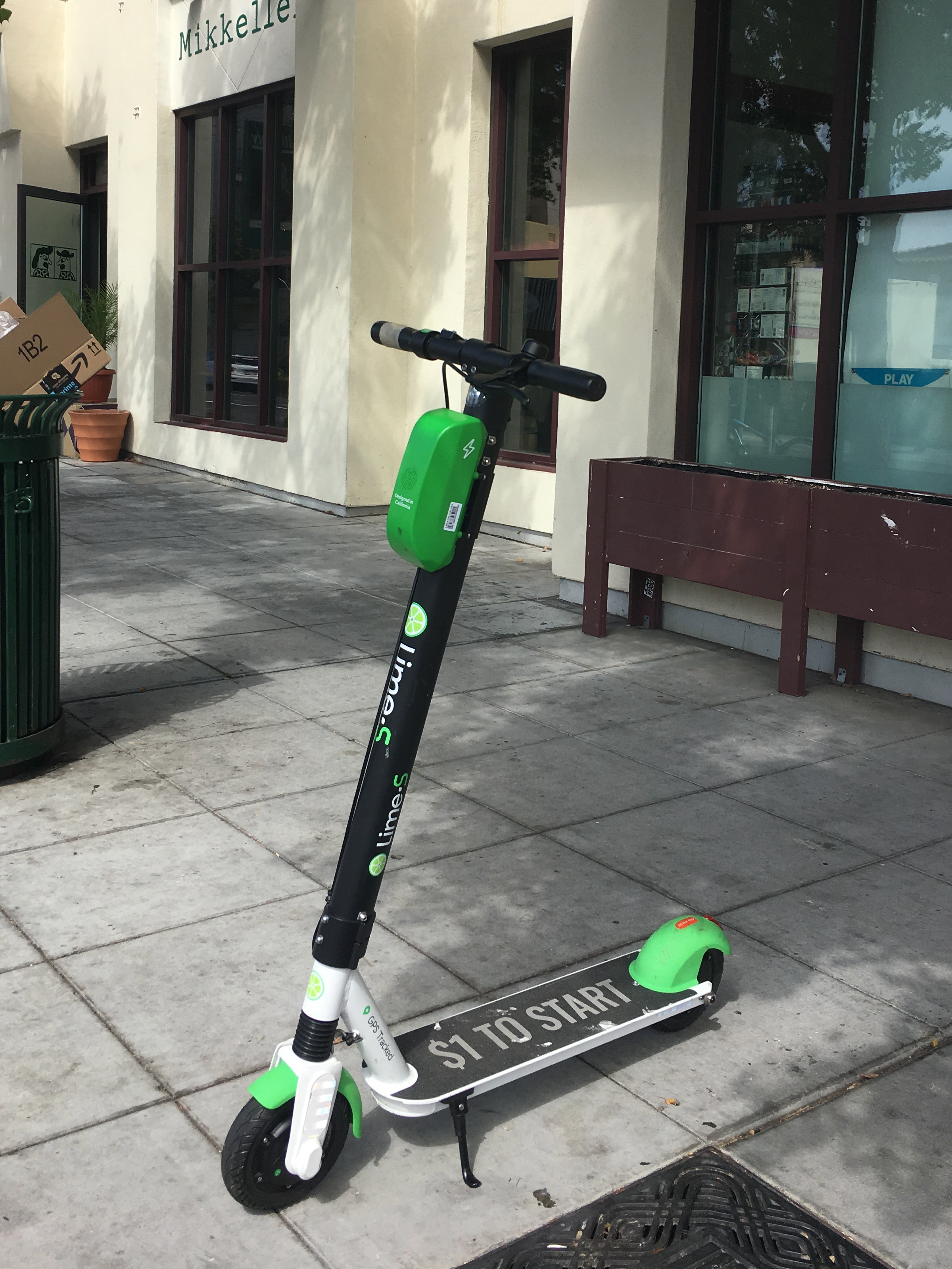 Lime-S electric scooter in Little Italy, San Diego, California, USA